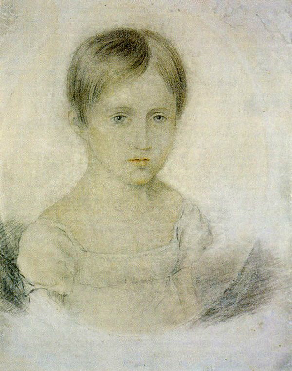 Nataliya Nikolaevna Pushkina-Lanskaya (née Nataliya Nikolaevna Goncharova) as a child. Drawing by an unknown artist. Early 1820s